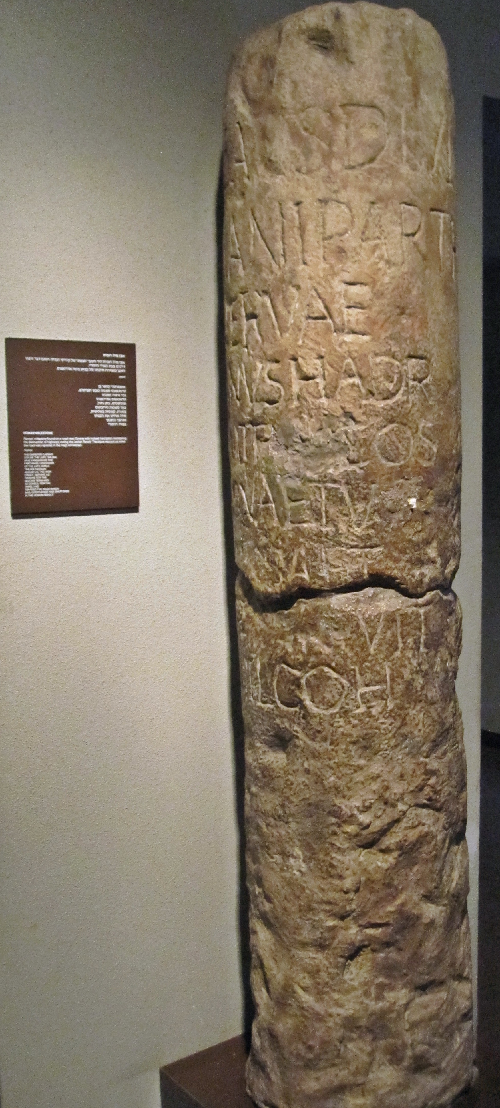 Photo of Exhibit at the Diaspora Museum, Tel Aviv - Beit Hatefutsot. Replica of Roman milestone found at Shahhat, on a road near Cyrene, with incised inscription mentioning the destruction of highways during the Jewish Revolt. The stone was put up when the road was repaired in the reign of Hadrian THE EMPEROR CAESAR SON OF THE LATE TRAJAN WHO VANQUISHED THE PARTHIANS, GRANDSON OF THE LATE NERVA TRAJAN HADRIAN AUGUSTUS, THE HIGH PRIEST, SERVING AS TRIBUNE FOR THE SECOND TERM AND AS CONSUL FOR THE THIRD, HAS REPAVED THE ROAD WHICH WAS OVERTURNED AND SHATTERED IN THE JEWISH REVOLT